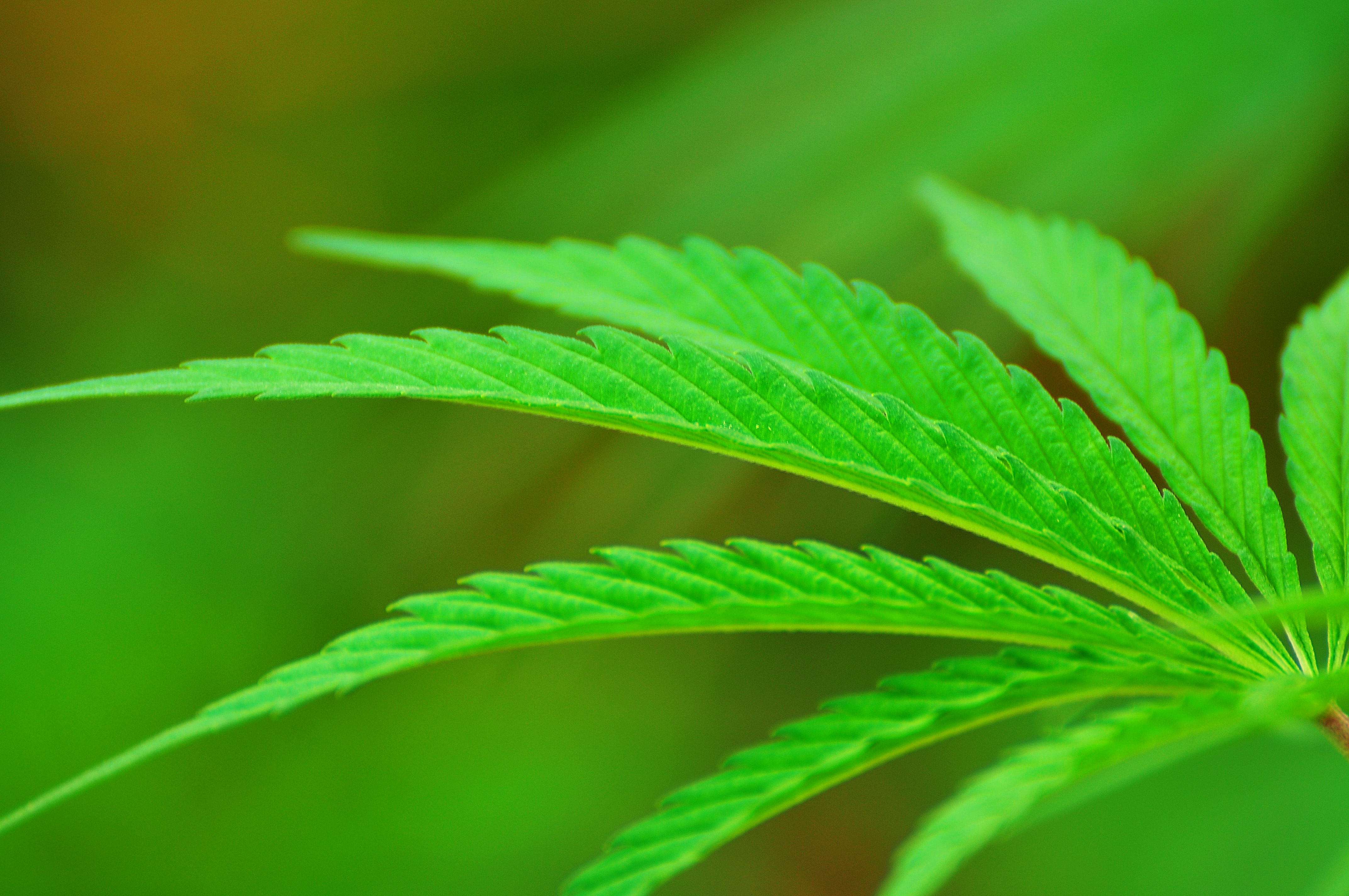 Weed growing wildly in an enormous landscape around northern Islamabad